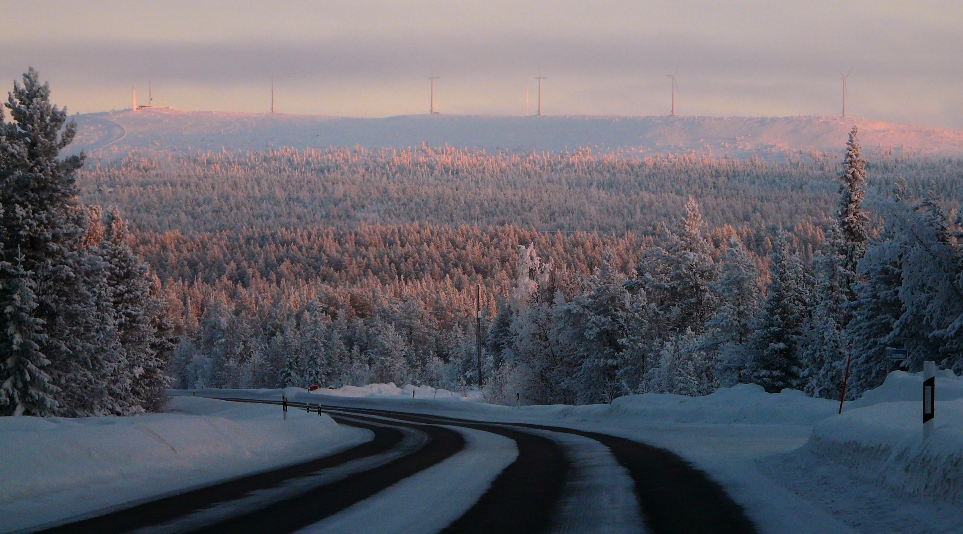 Olostunturi as seen from the northwest from Rovaniementie (national road 79) in 2009 February.